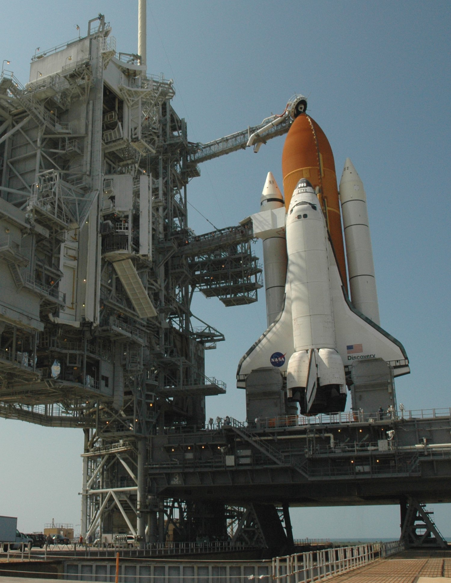 Space Shuttle Discovery in full launch configuration is revealed after the Rotating Service Structure (RSS) is rotated back at Launch Pad 39B at Kennedy Space Center.